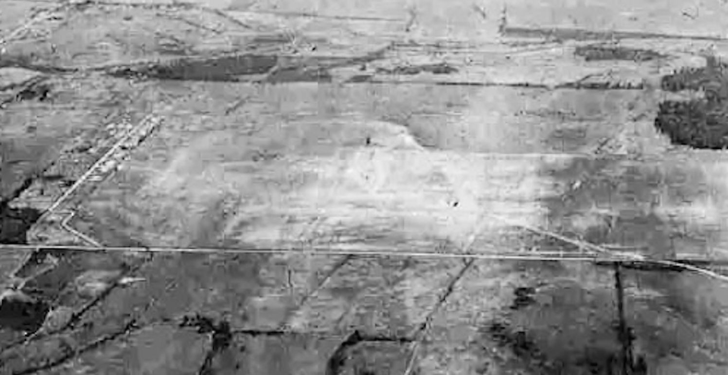 Oblique photo of Taylor Field, Alabama, taken in 1945 looking north to south. Note that the World War I support base partially remains that was built in 1918